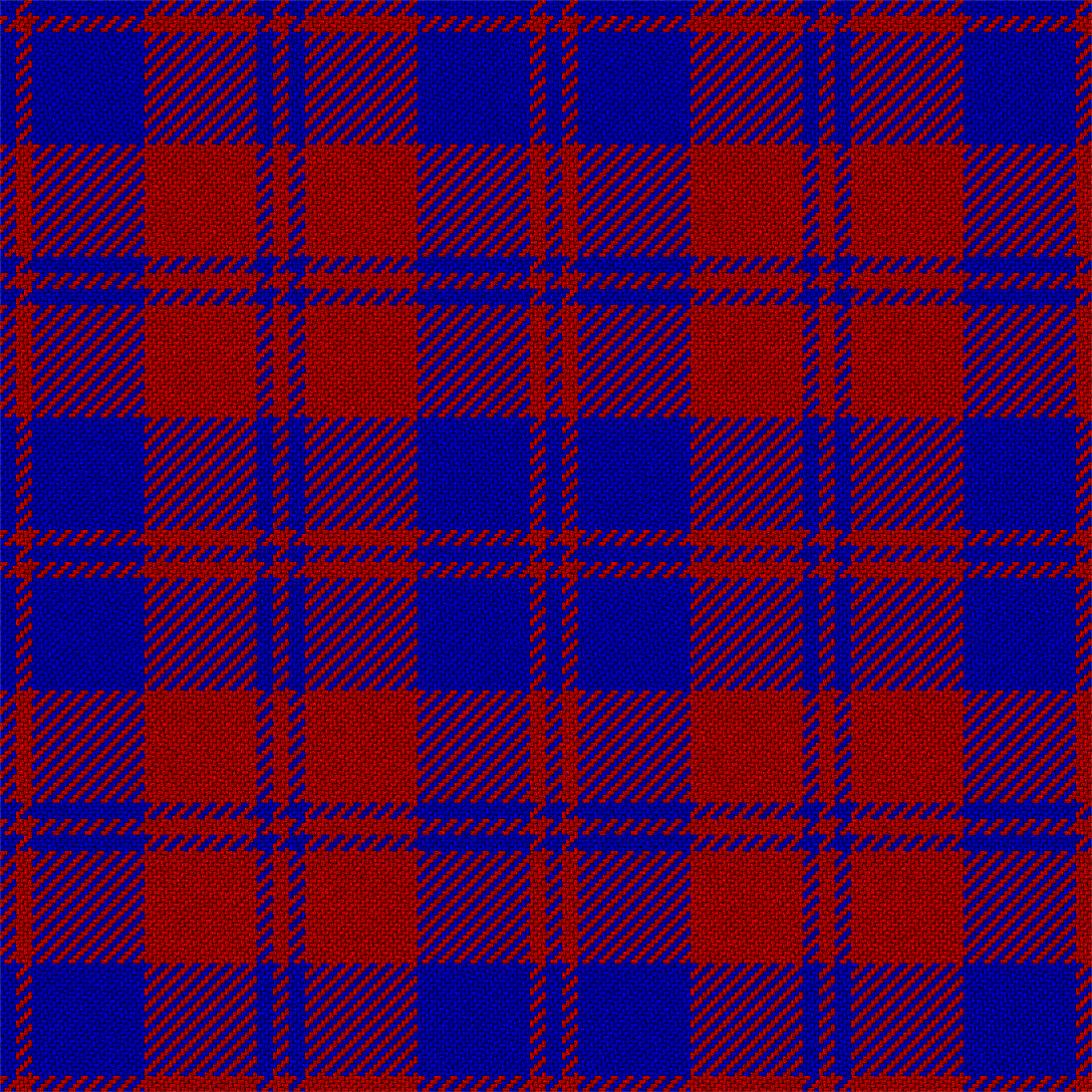 A digital representation of the MacGregor of Glengyle tartan. It is also known as the MacGregor of Deeside tartan. The thread count used for this image was blue-4, red-4, blue-28, red-28, blue-4, red-4.